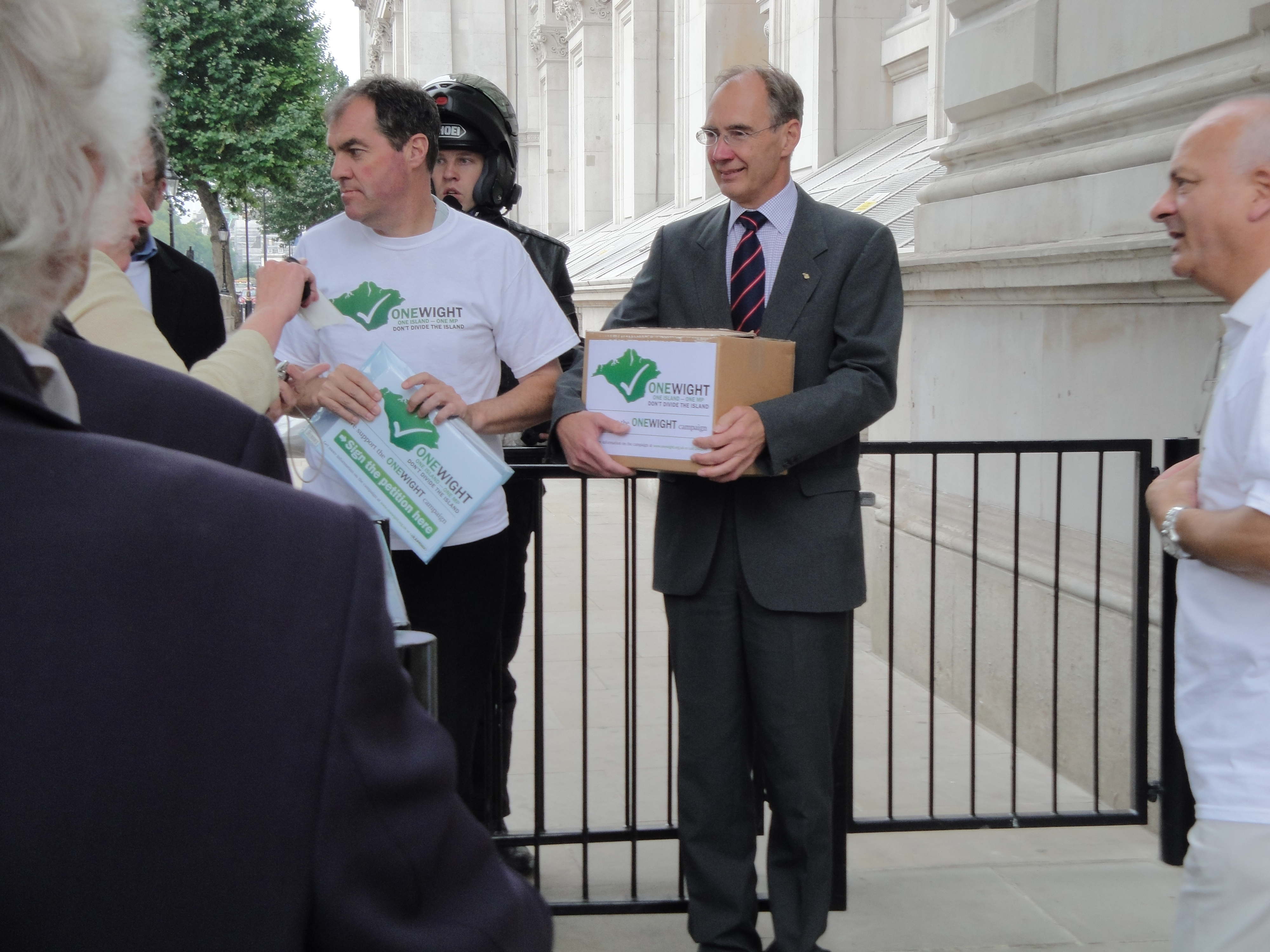 Andrew Turner, MP for the Isle of Wight seen outside Downing Street, London with some of the One Wight team. The One Wight campaign is a political campaign headed by Andrew Turner against the Isle of Wight being divided up into separate parliamentary constituencies part shared by a mainland MP.